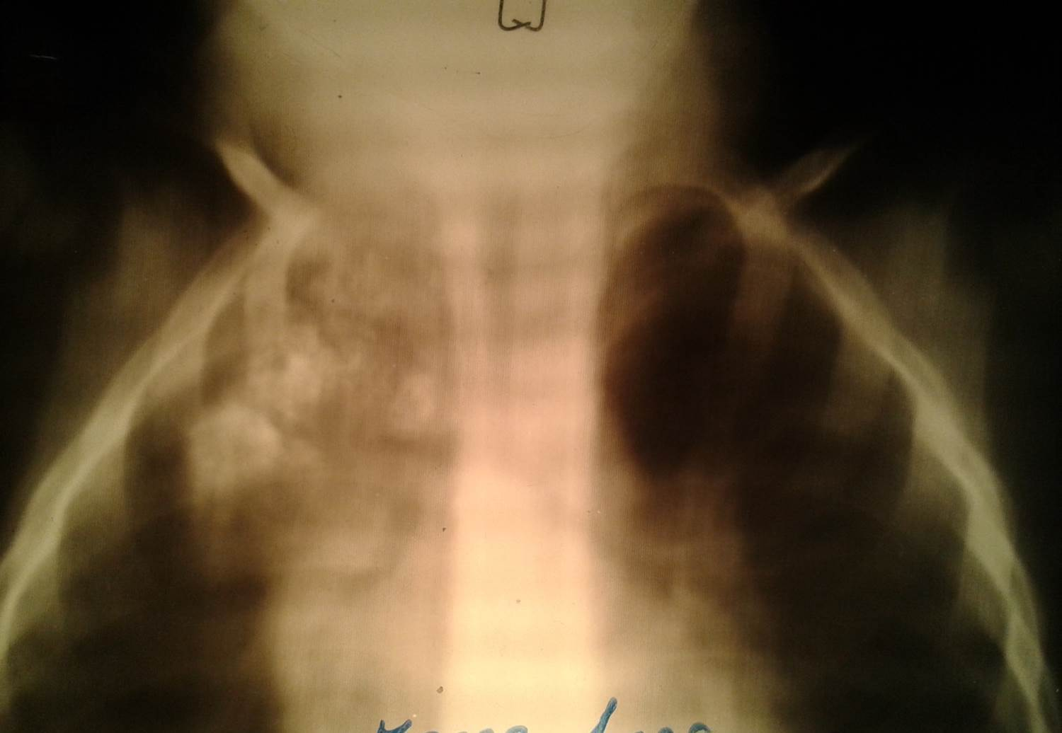 tuberculoma x-ray